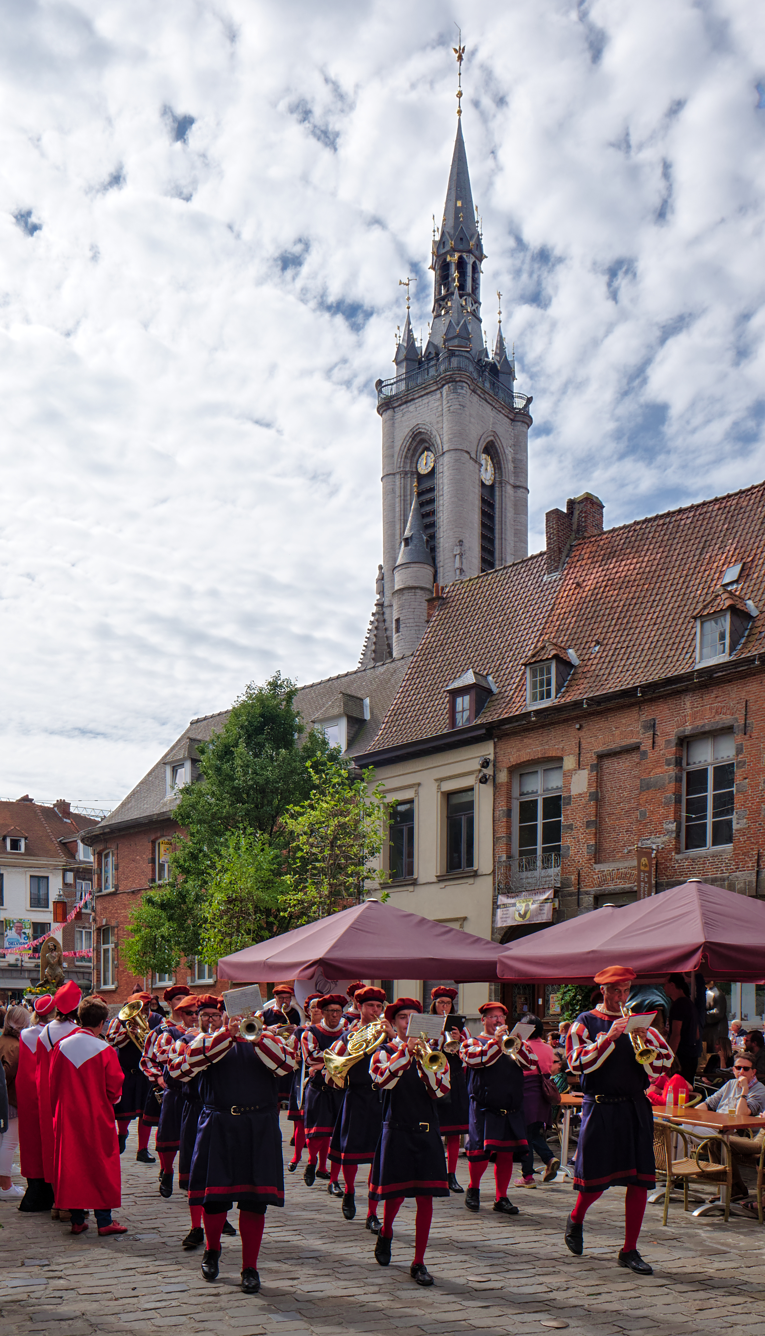 Marching brass band "Les Pélissiers de Binche" playing by the end of the great procession of Tournai This place is a UNESCO World Heritage Site, listed as Belfries of Belgium and France. This photo of immaterial heritage has been taken in the Walloon Region